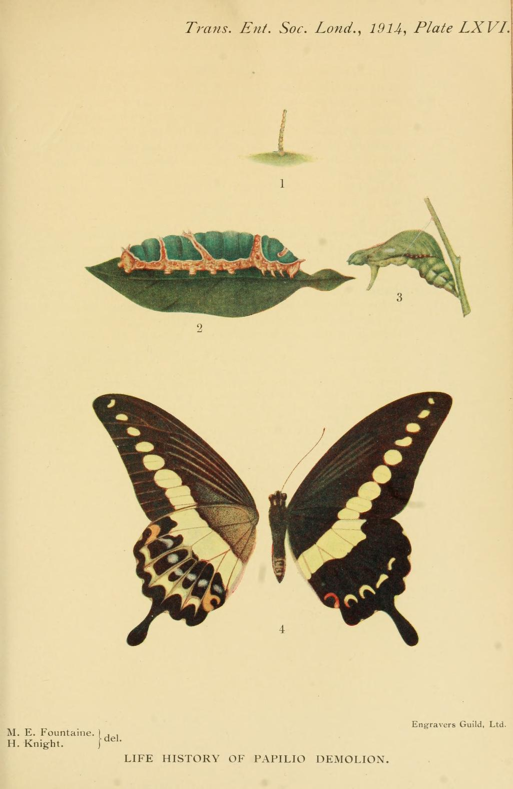 Plate LXVI Vol 62 Transactions of the Entomological Society of London by Margaret Fountaine published in XIV. Notes on the Life History of Papilio demolion, Cram. (Q63968128)